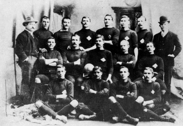 The South Africa team that played British Isles one of the tests. They played in navy blue jerseys with a diamond on the front.